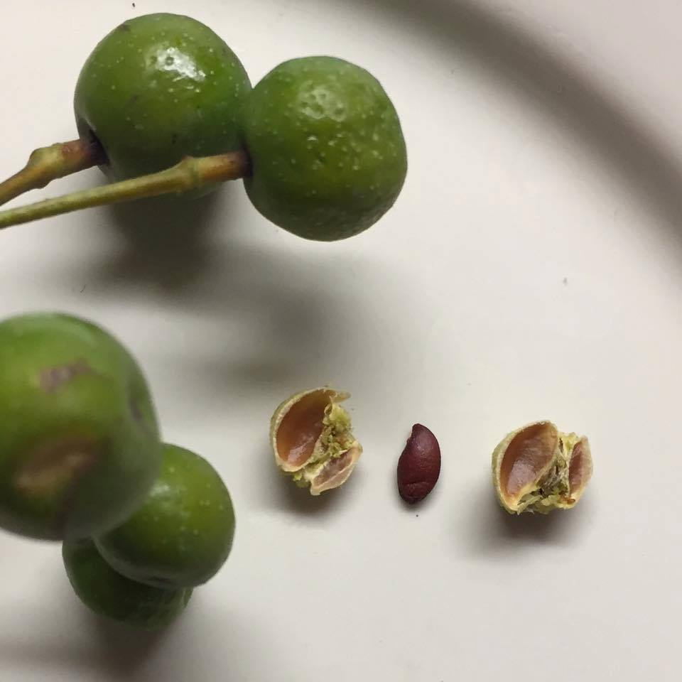 Melia fruit and seed